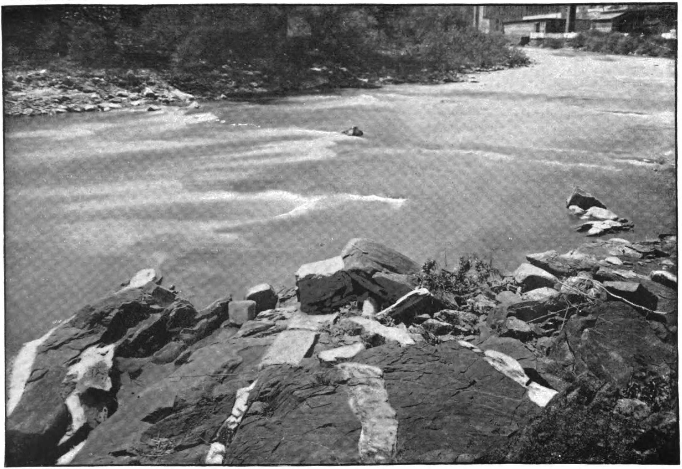 Plate XXXIII from The Origin and Relations of Central Maryland Granites (Extract from the 15th Annual Report of the U. S. Geologic Survey, 1893-94) by Charles Rollin Keyes, 1895. Caption is "Pegmatite Dikes, Ilchester Station." Ilchester Station is now simply called Ilchester.